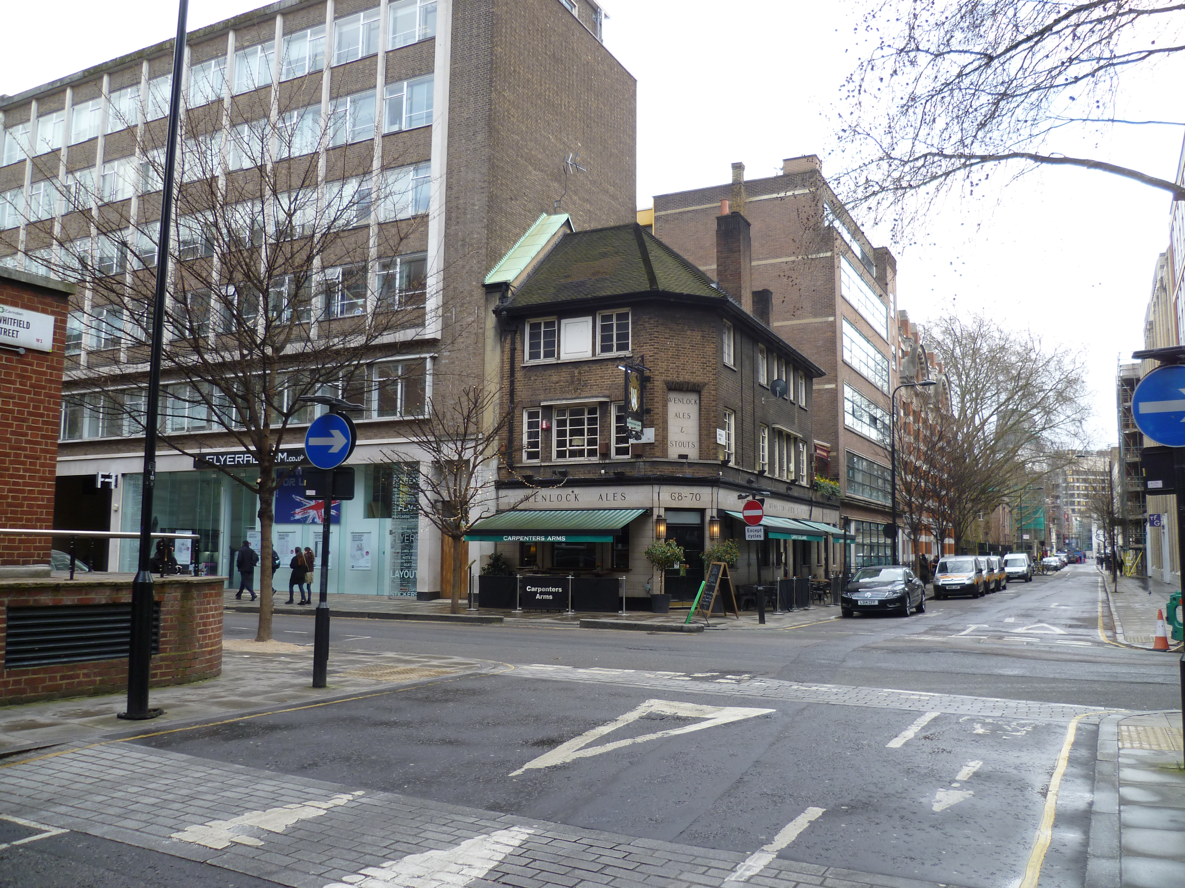 London